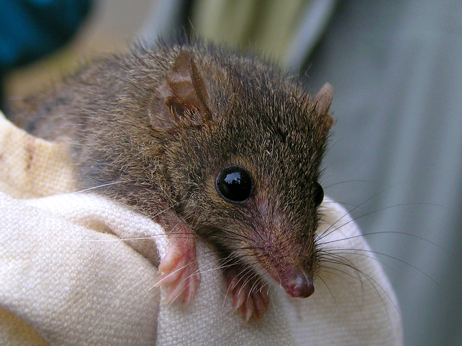 Agile Antechinus, Antechinus agilis, trapped during a uni field trip.